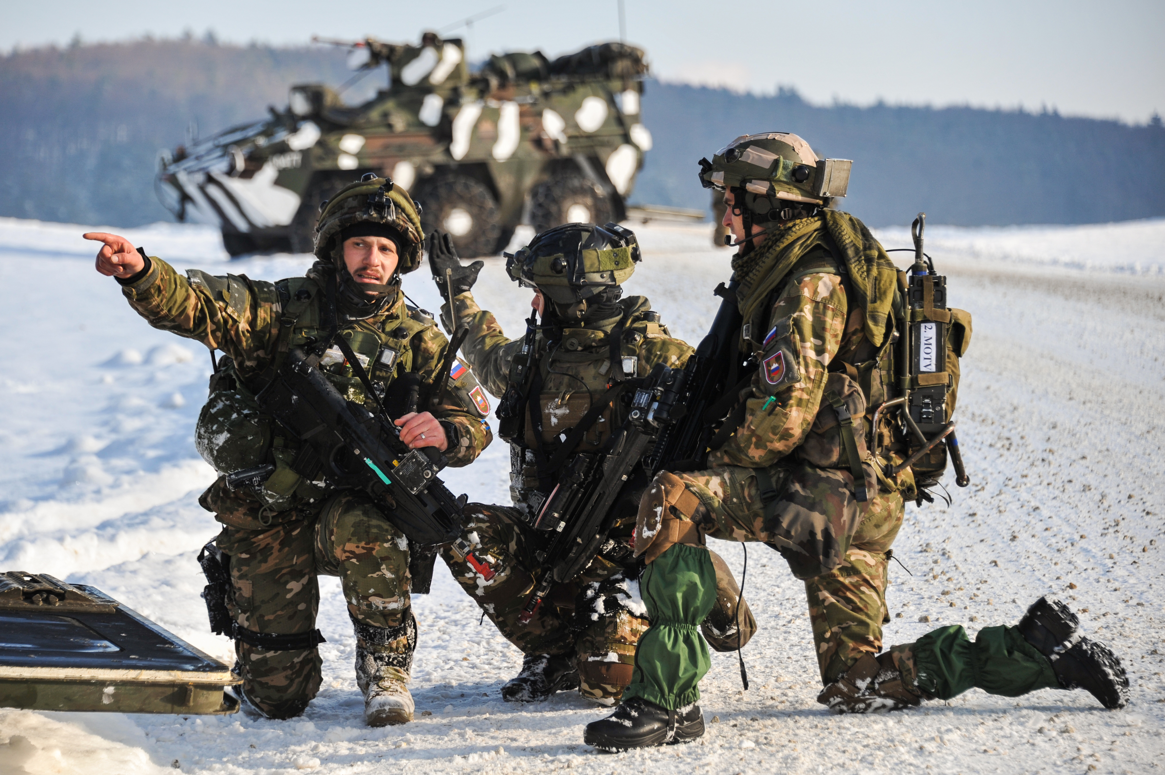 Slovenian soldiers of 3rd Company, 10th Regiment take a knee during a situational training exercise lane at Exercise Allied Spirit IV at the 7th Army Joint Multinational Training Command's Hohenfels Training Area, Germany, Jan. 21, 2016. Exercise Allied Spirit includes more than 2,200 participants from six NATO nations, and exercises tactical interoperability and tests secure communications within Alliance members and partner nations. (U.S. Army photo by Visual Information Specialist Markus Rauchenberger/released)